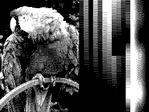 Based on Image:Parrot timex.png (by User:Ricnun). --StuartBrady (Talk) 20:05, 5 September 2006 (UTC)